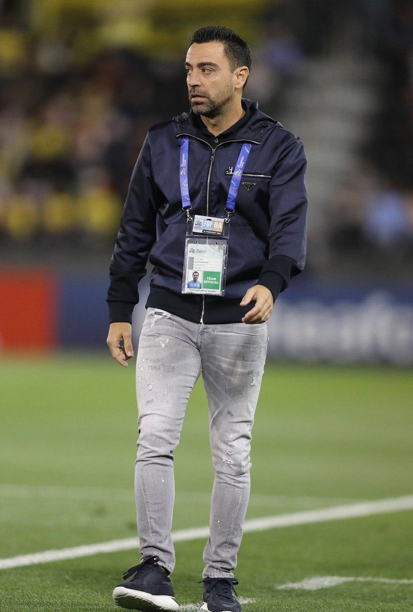 Xavi Hernandez